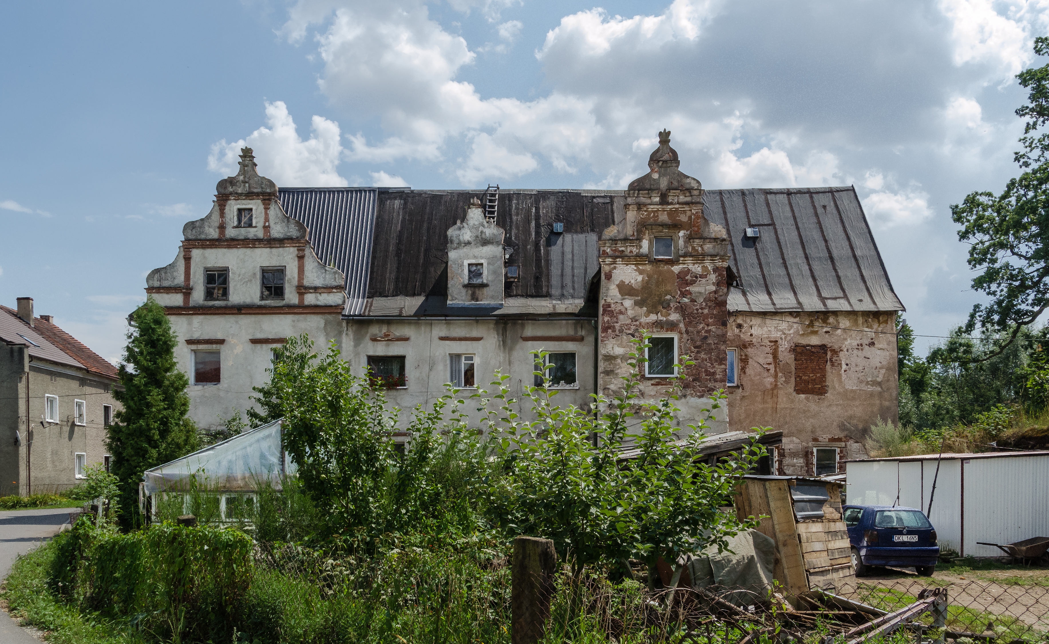 Manor in Ścinawka Dolna